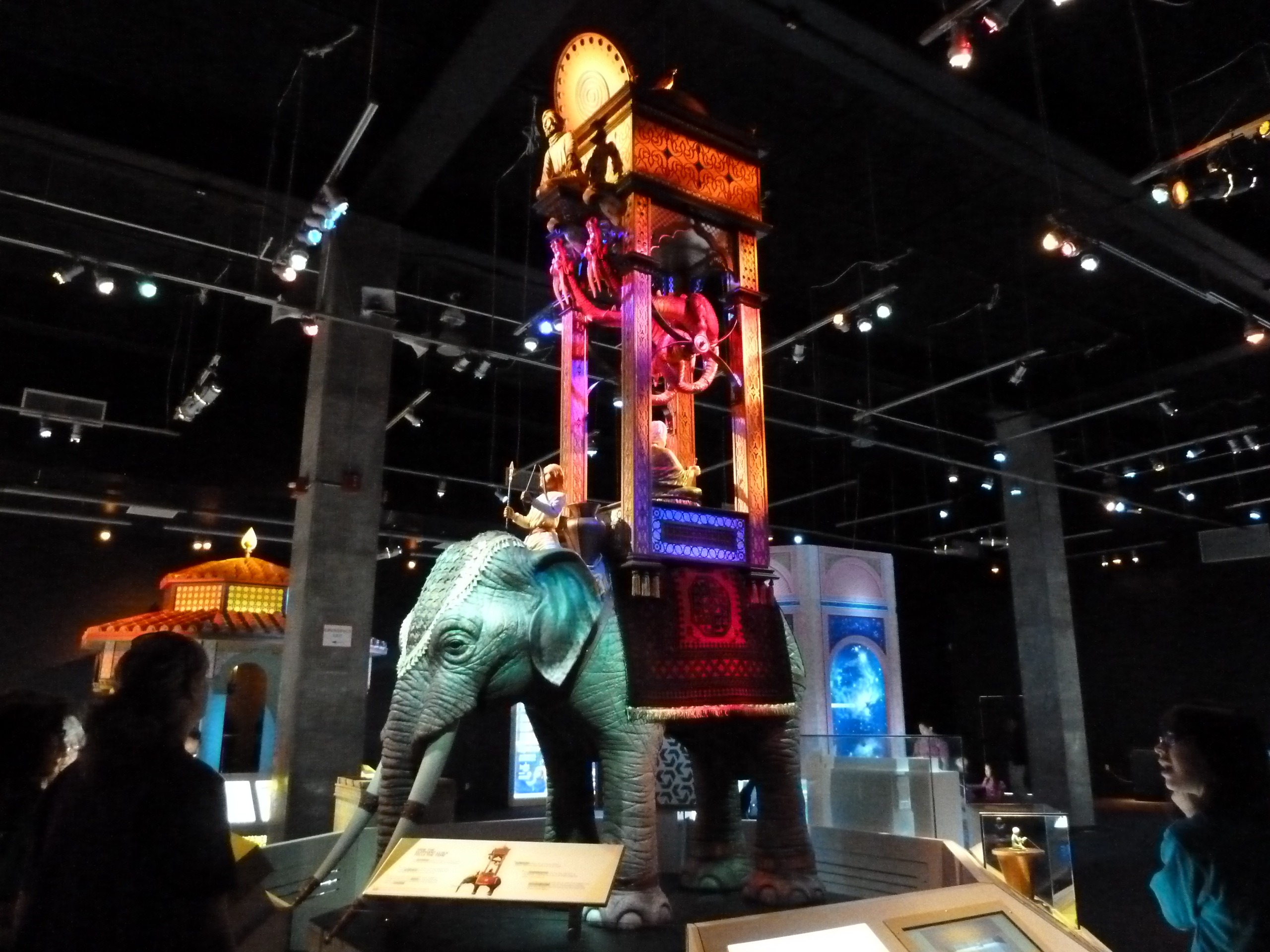 Elephant clock replica at the "1001 Inventions" exhibtion.